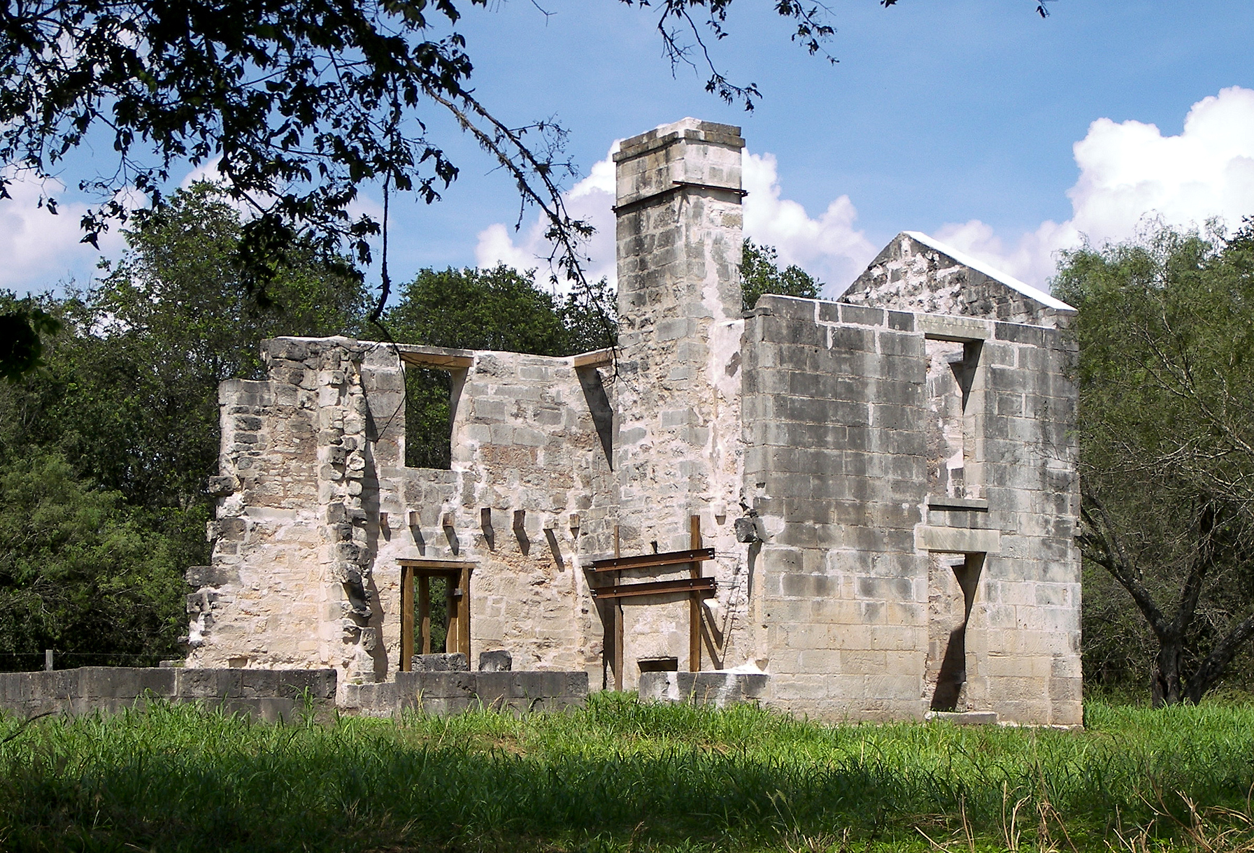 The ruins of the McKinney Homestead in McKinney Falls State Park. The additional masonry work and steel and wood bracing necessary to stabilize the structure can be seen.